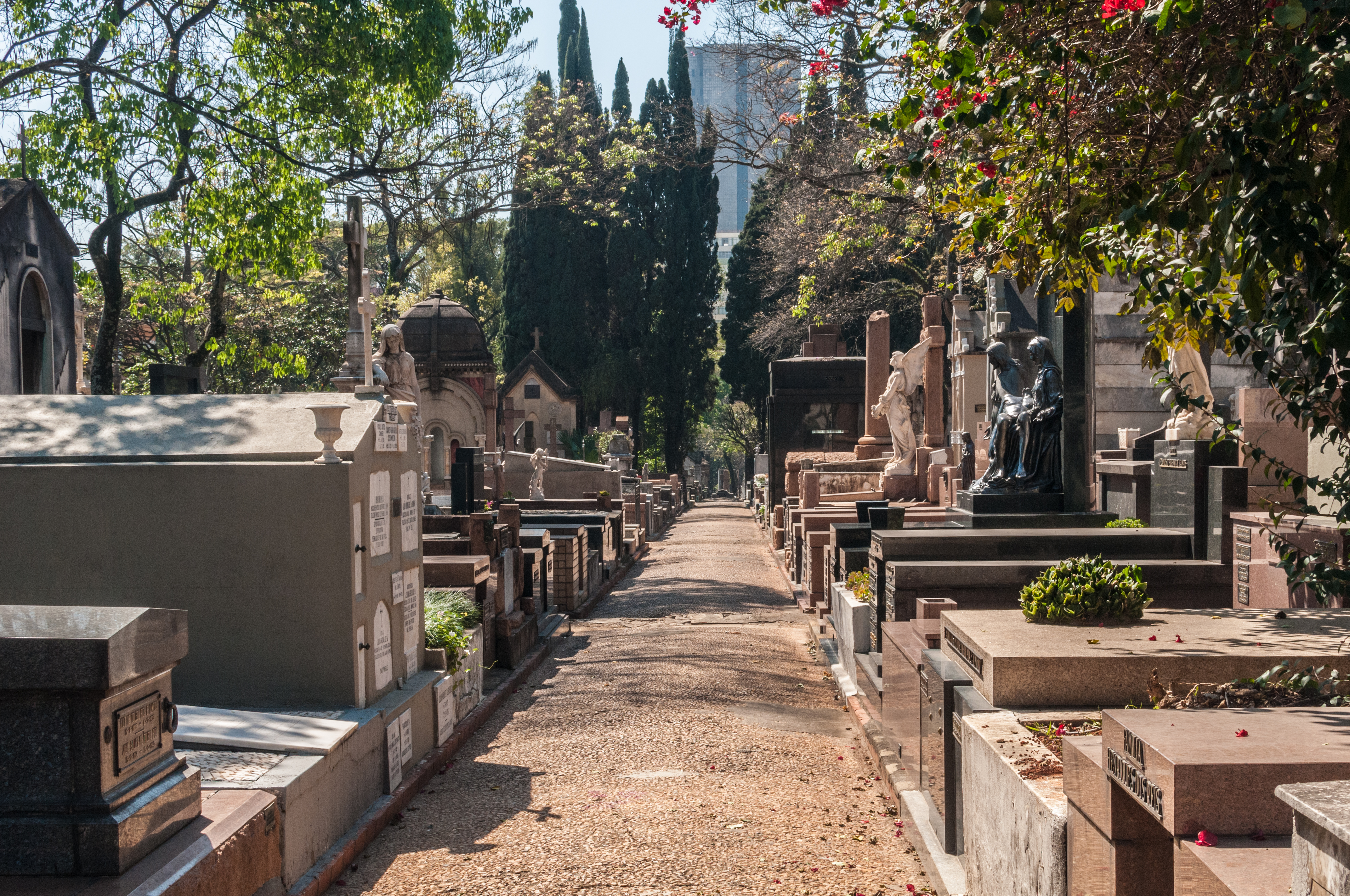 Consolata Cemetery